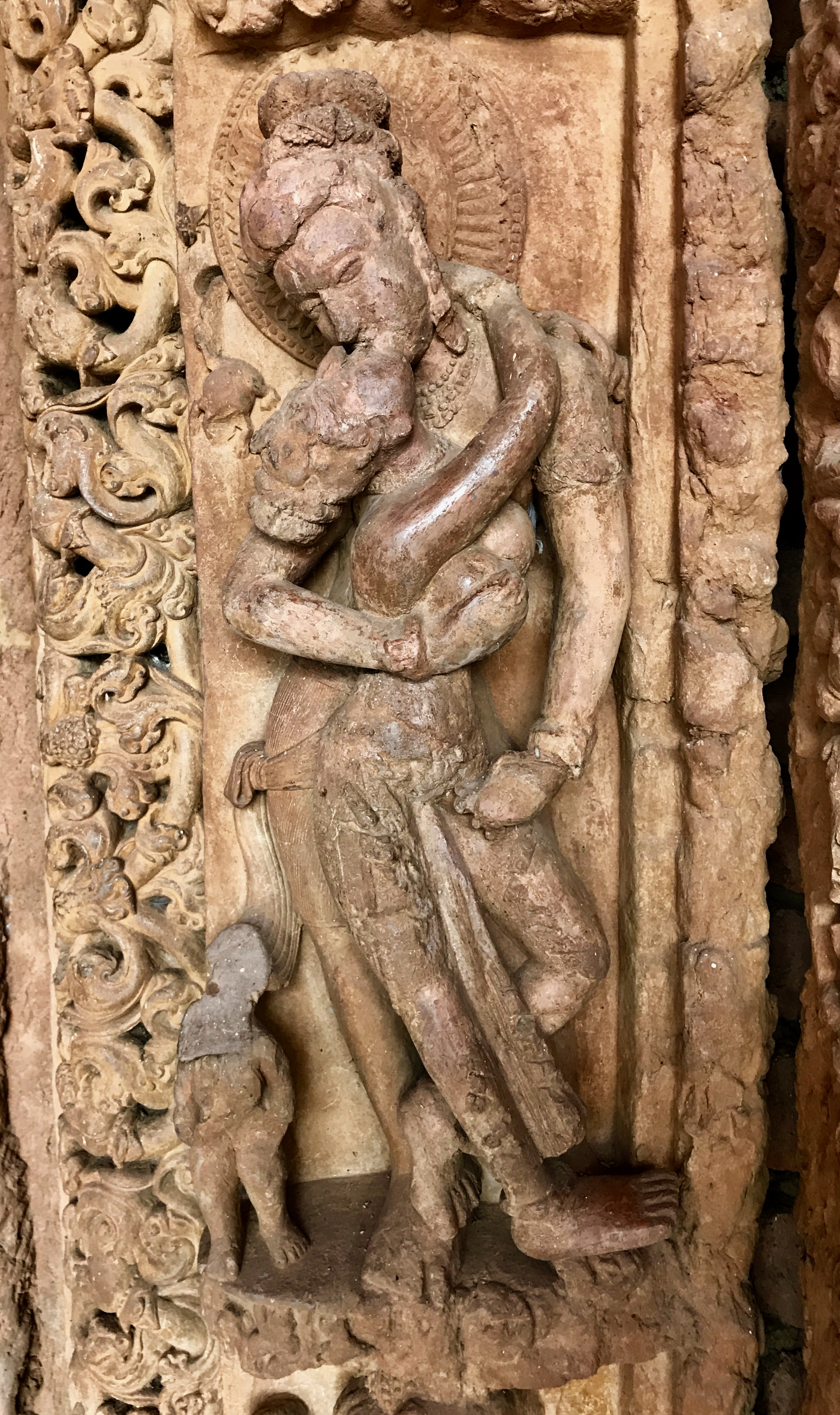 Tivaradeva is a 21st century excavated monument at Sirpur, Chhattisgarh India. It shows a fusion of Buddhism and Hinduism artworks. Along with motifs of Buddhism and large statue of the Buddha, numerous icons and artworks of Shaivism and Vaishnavism are found at the site. The syncretism in the monument may be because it was built by a royal couple where the 8th century Kosala king Tivara Deva was from a Vaishnavism Hindu family and his Queen was born in a Buddhist family. Sirpur, also referred in medieval era texts as Shripur (city of wealth), is a town on the banks of Mahanadi in Chhattisgarh. The site became archaeologically significant after a visit and report on a Laxman (Lakshmana) temple in 1872 by Alexander Cunningham, a colonial British India official. Sirpur is mentioned in the memoirs of the Chinese traveler Hieun Tsang as a location of monasteries and temples. The site has been significant for its temple ruins of Rama and Lakshmana of the Ramayana fame. The site excavations after 1960, particularly after 2003, have yielded 22 Shiva temples, 5 Vishnu temples, 10 Buddha Viharas, 3 Jain Viharas, a 6th/7th century market and snana-kund (bath house). The site shows extensive syncretism, where Buddhist and Jain statues or motifs intermingle with Shiva, Vishnu and Devi temples. The region was conquered and plundered by the armies of Delhi Sultanate and later Deccan Sultanates. The town and temples were damaged in the wars and were abandoned. Dense vegetation grew over it and floods deposited silt. 20th and 21st century excavations have unearthed many monuments. The site is large and artwork stick out of farmlands and dirt roads in and near Sirpur.